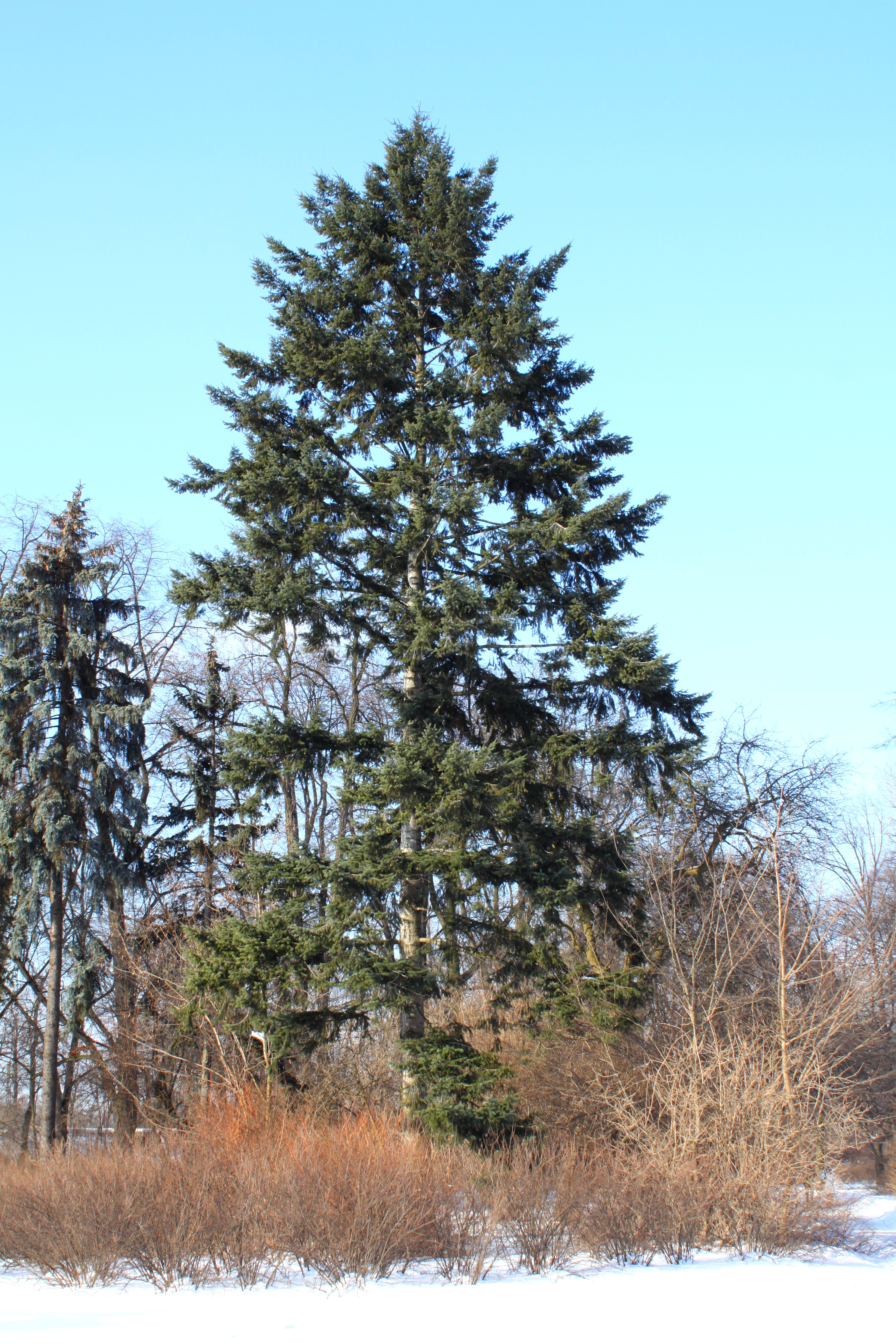 Pseudotsuga menziesii in Park Skaryszewski, Warsaw